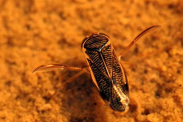 Hesperocorixa castanea from Commanster, Belgian High Ardennes .